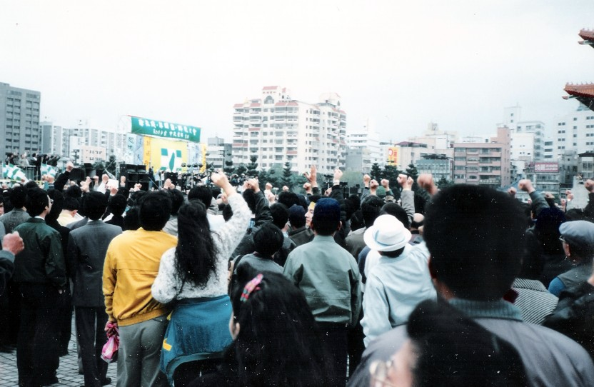 Scanned image from a photo I took on 18 March 1990 of a Wild Lily Movement protest